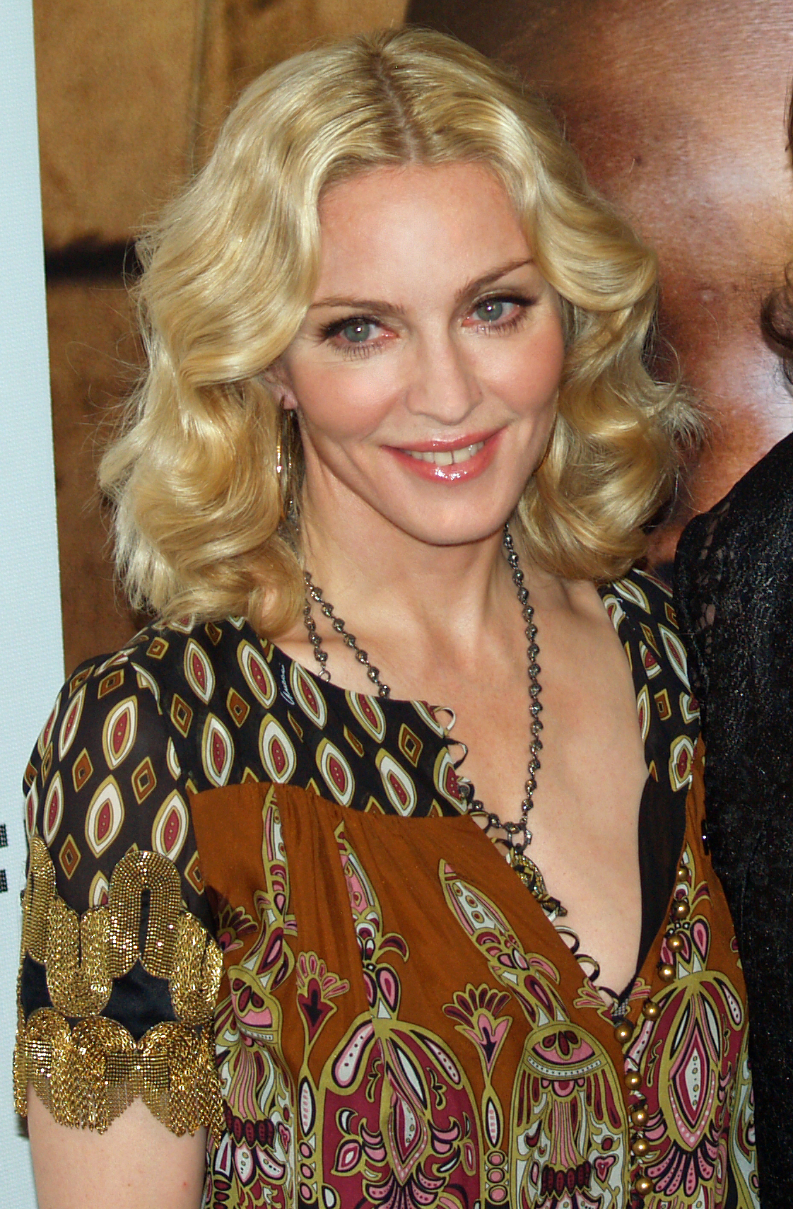 Madonna at the premiere of I Am Because We Are at the 2008 Tribeca Film Festival